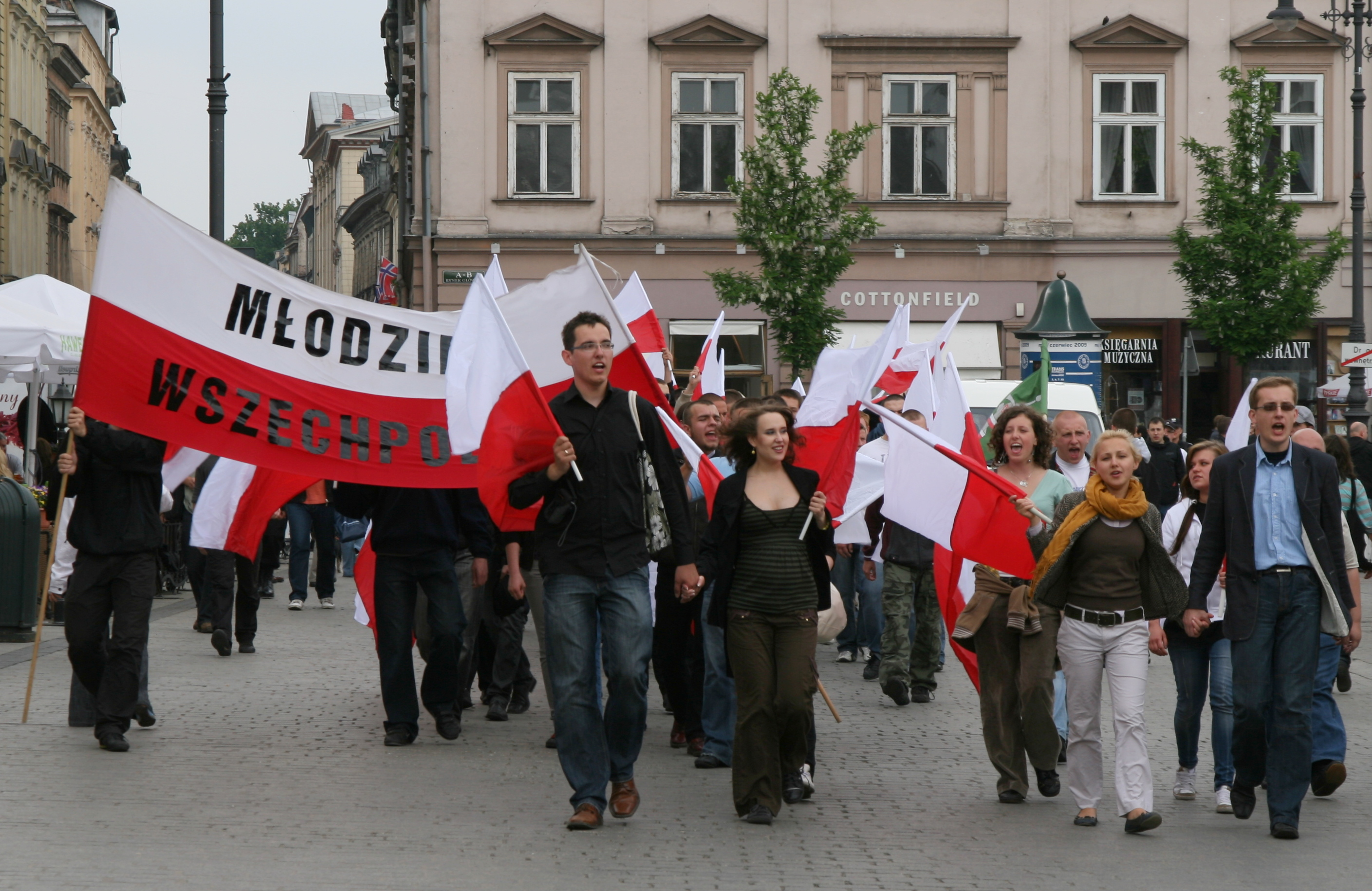 All-Polish Youth